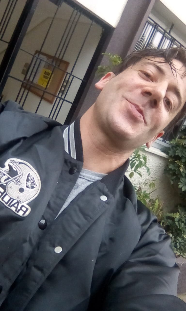 MC Tea Time in this moment